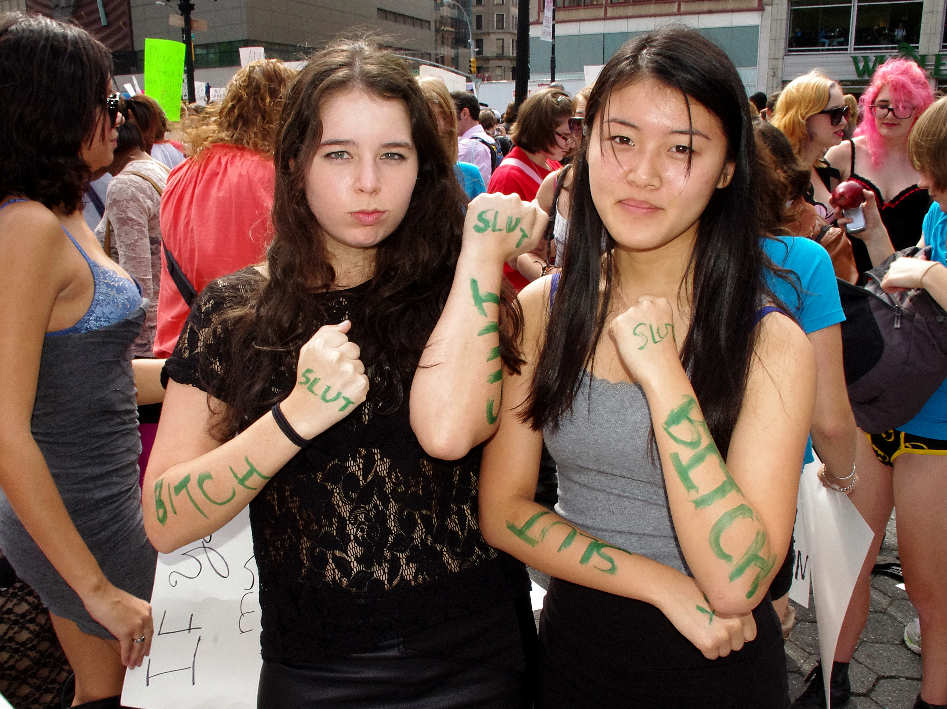 Photos from SlutWalk NYC on Saturday in Manhattan's Union Square.